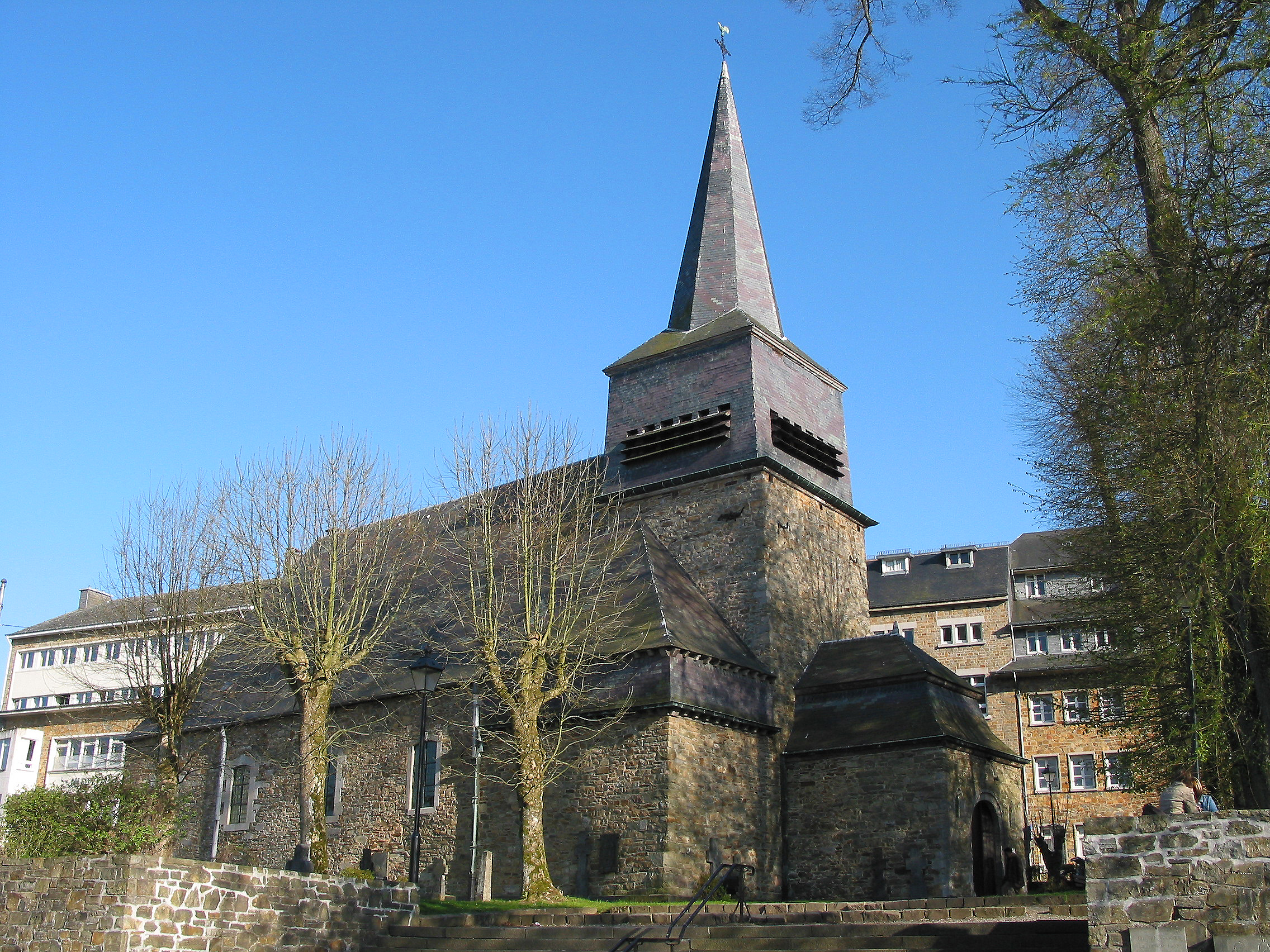 Saint-Hubert, Belgium, the Saint-Gilles-au-Pré church (XIth Century - 1064).